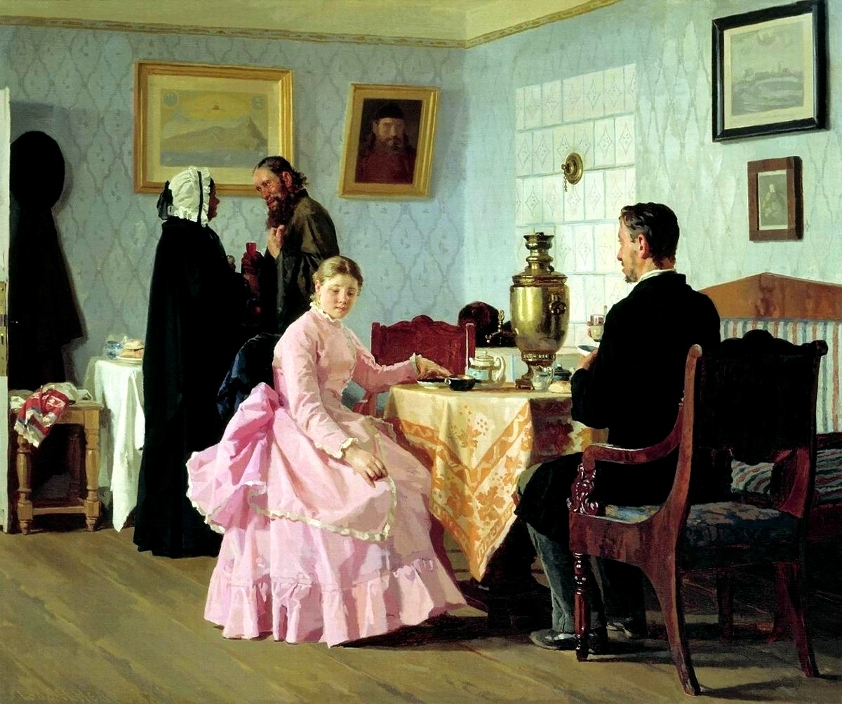 Presentation of a marriageable girl